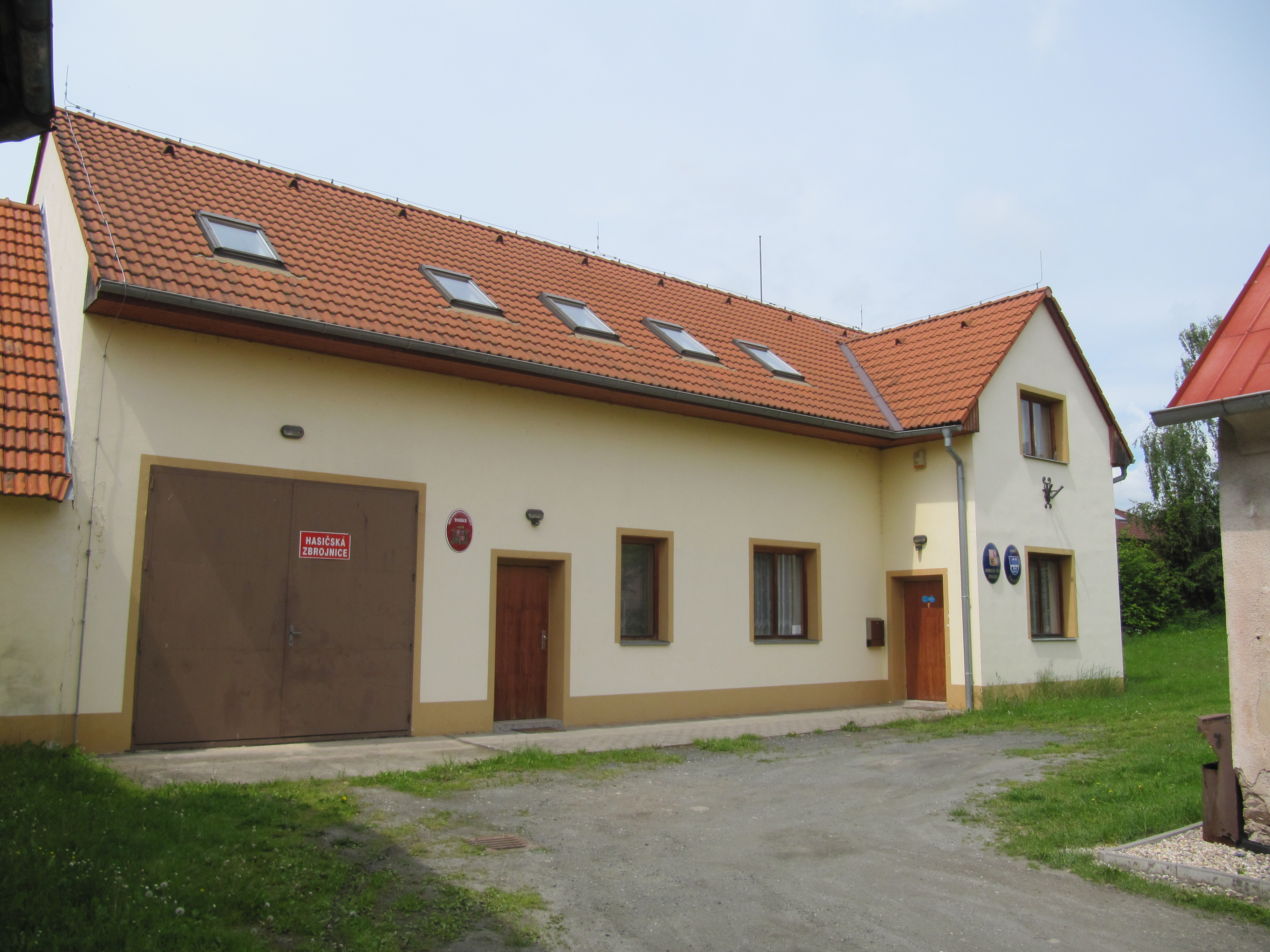 Toušice, Kolín District, Czech Republic.